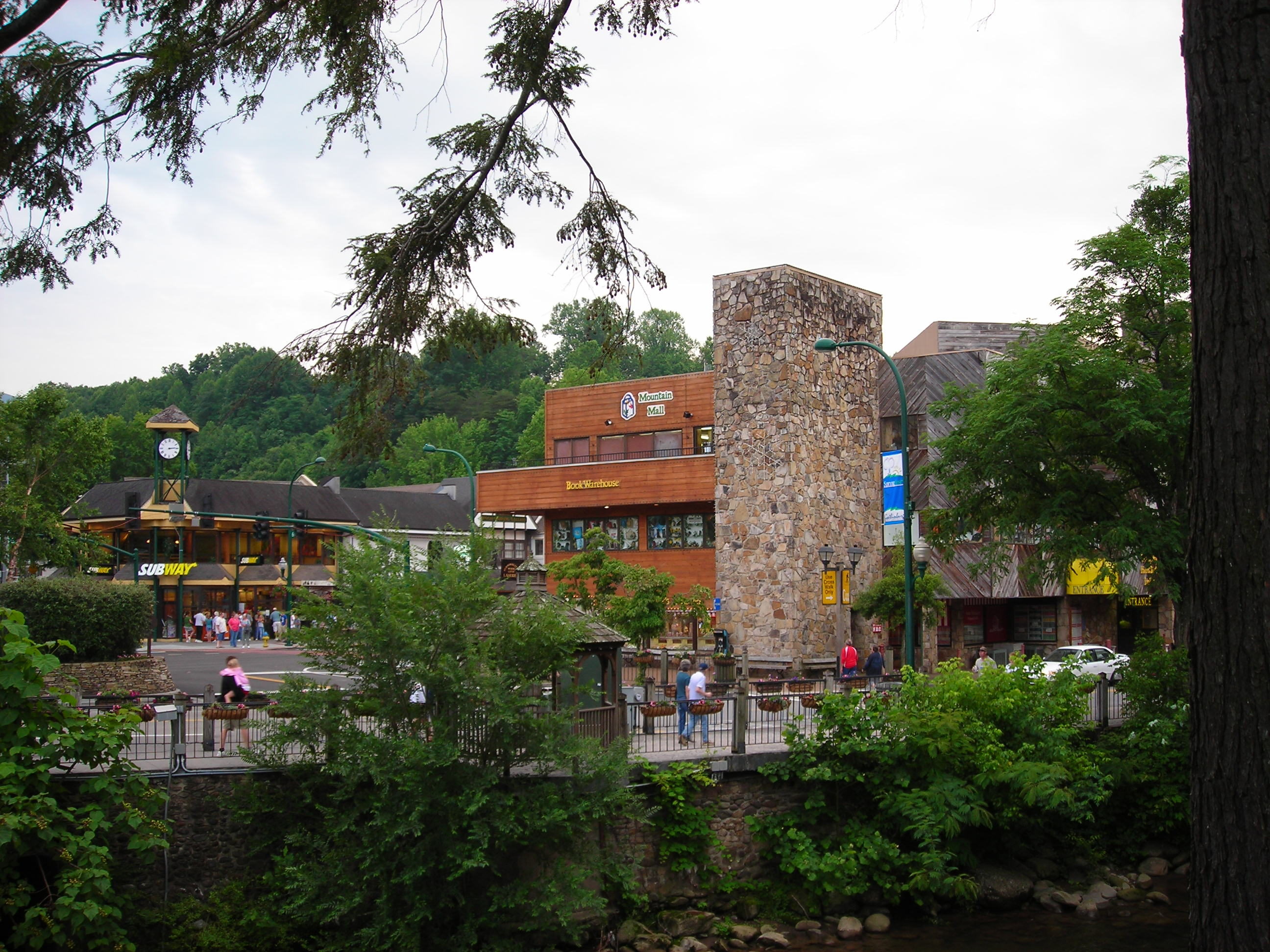 Gatlinburg, Tennessee as seen from the Ripley's Aquarium. Photo taken by myself, Scott Basford, on June 4, 2006.